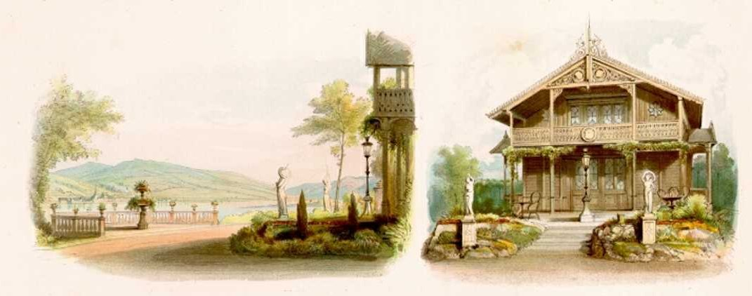 Picture from Image:Rheinanlage 05.jpg